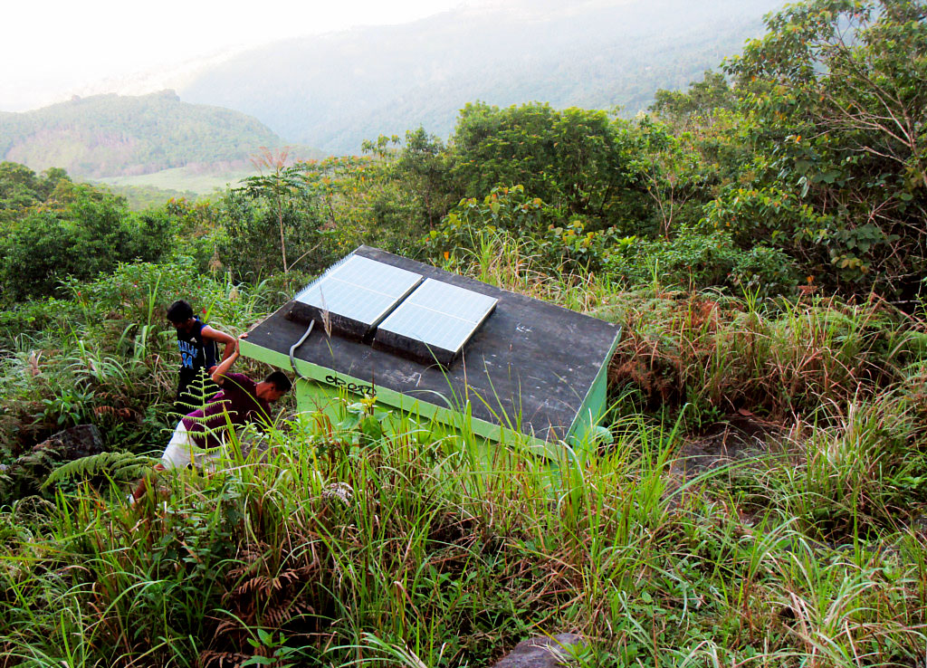 Standing along the Ardent Trail of the Hibok-Hibok Volcano of Camiguin Island at 730 meters above sea level. It monitors the volcanic activity and sends data remotely to the PHIVOLCS Hibok-Hibok observatory at about 3.41 kilometers away at 55 degrees bearing.